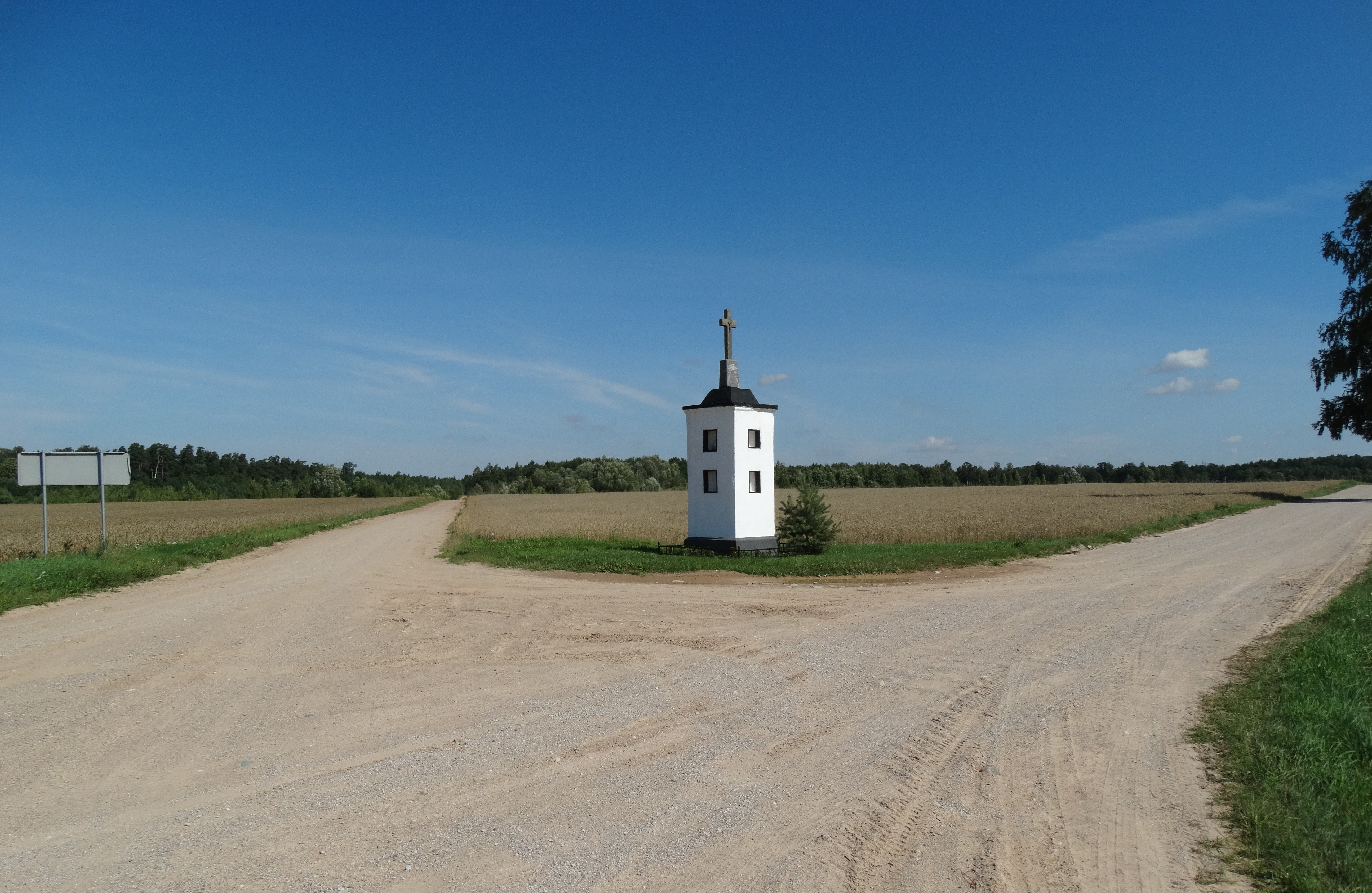 Bebrujai, Radviliškis District, Lithuania